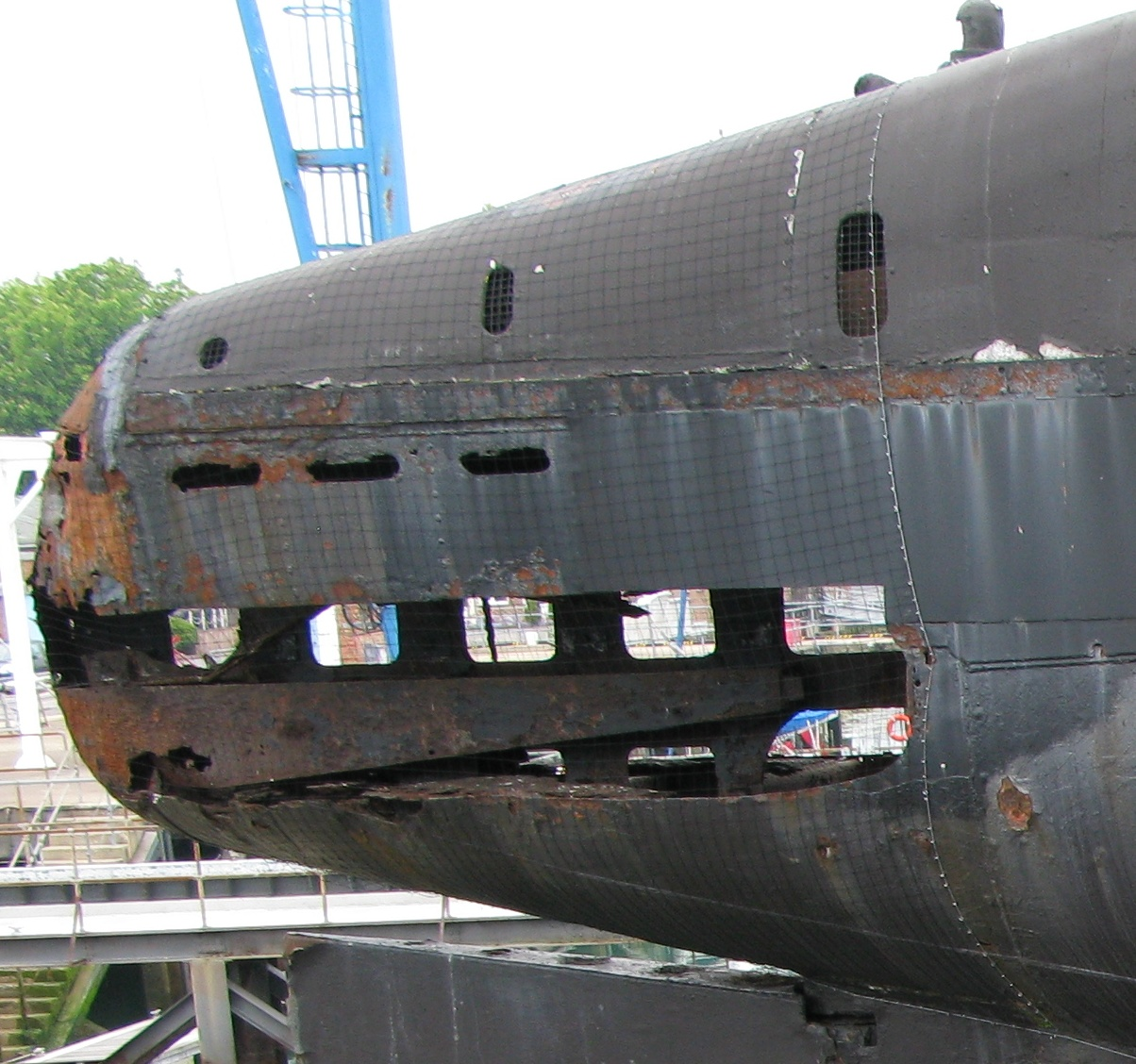 Photograph of damage to the tail of HMS alliance